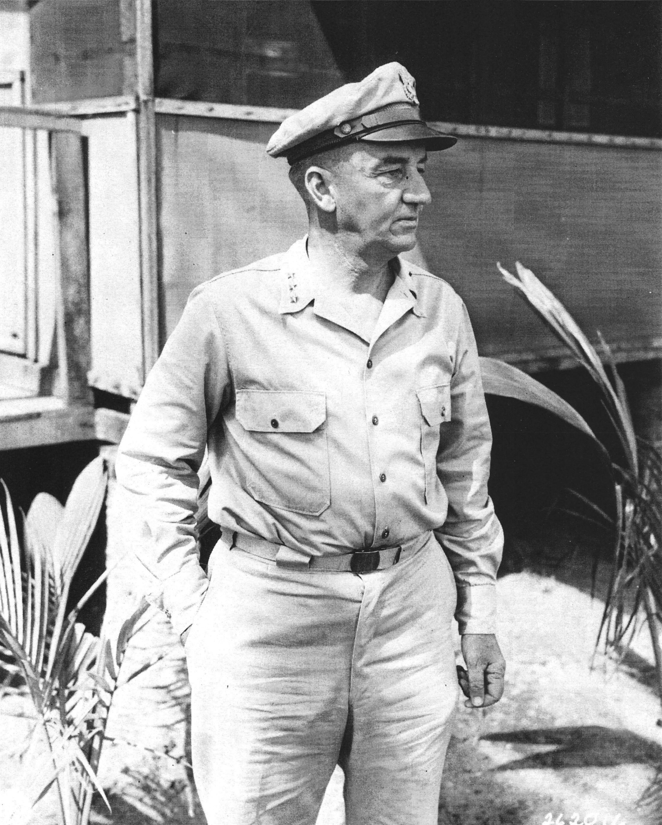 Lieutenant General Robert Eichelberger